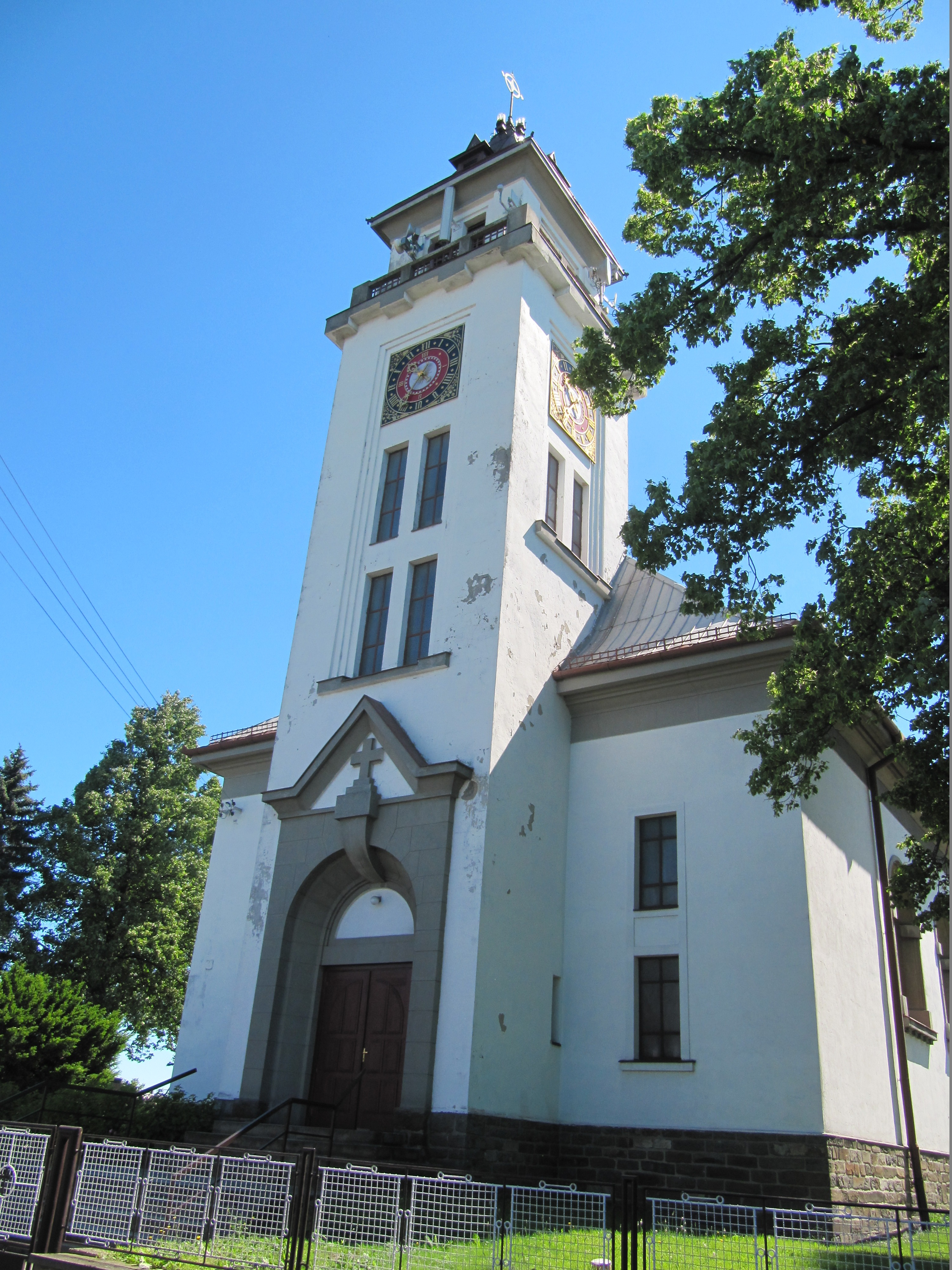 Tísek, Nový Jičín District, Czech Republic.